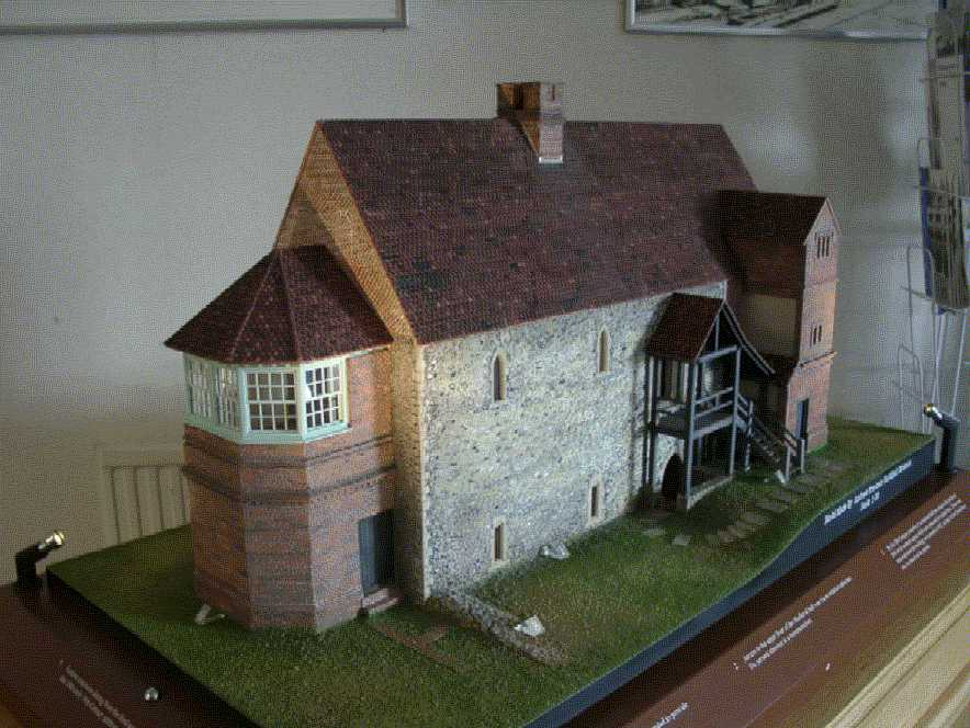 Model of Temple Manor, Strood, Kent